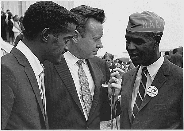 March on Washington for Jobs and Freedom — 28 August, 1963. Including the African American Civil Rights participants: Sammy Davis, Jr. (left), actor and performer. Roy Wilkins (right), Executive Secretary of the National Association for the Advancement of Colored People (NAACP).